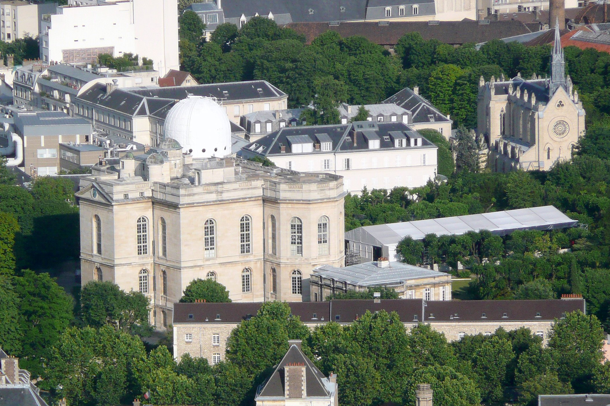 Paris Observatory and chapel of the Sisters of St Joseph de Cluny, view from the summit of the Montparnasse Tower, XIVe arrondissement, Paris, France.